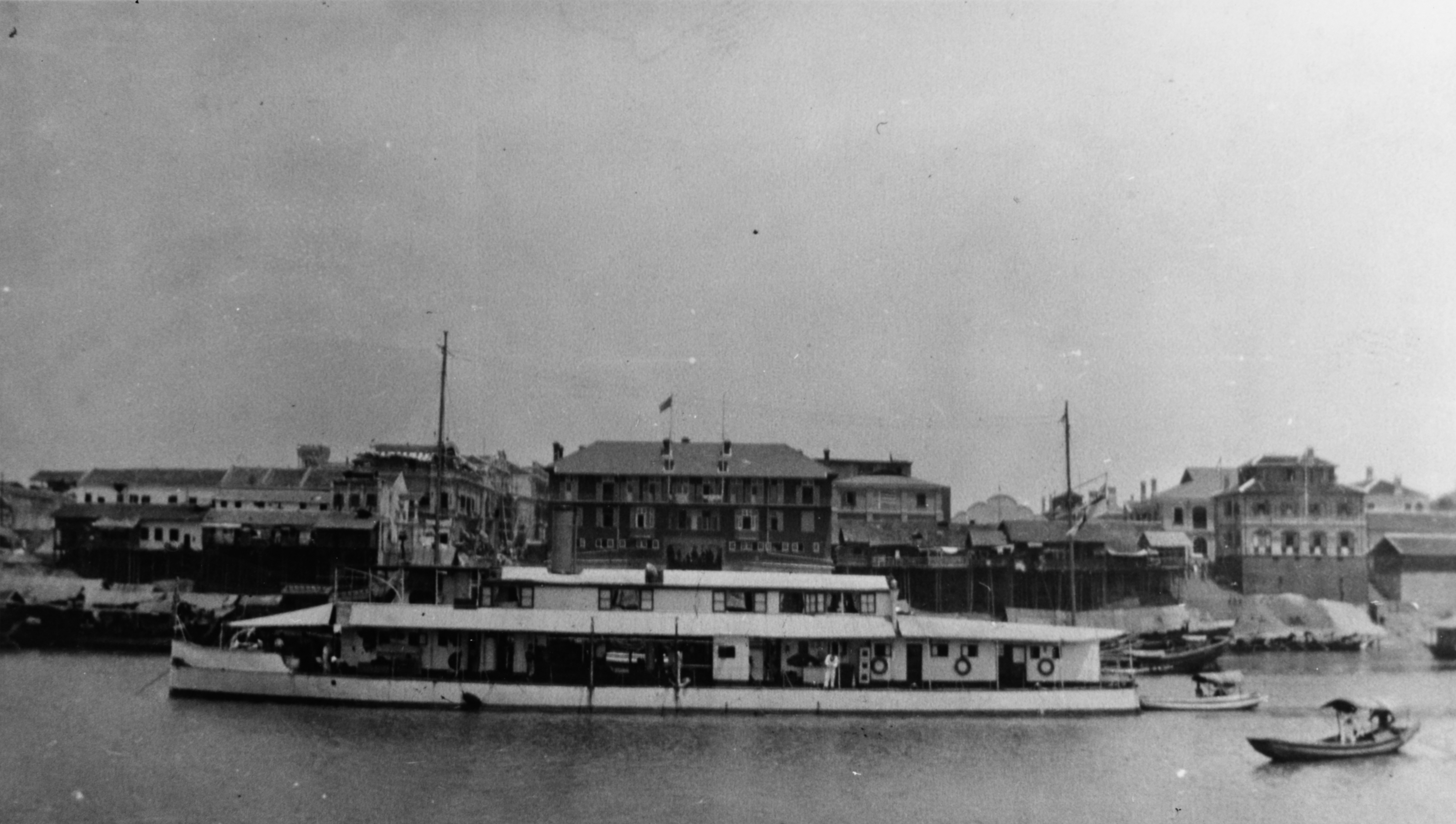 The British river gunboat HMS Woodcock at Ichang, China in the 1920's.